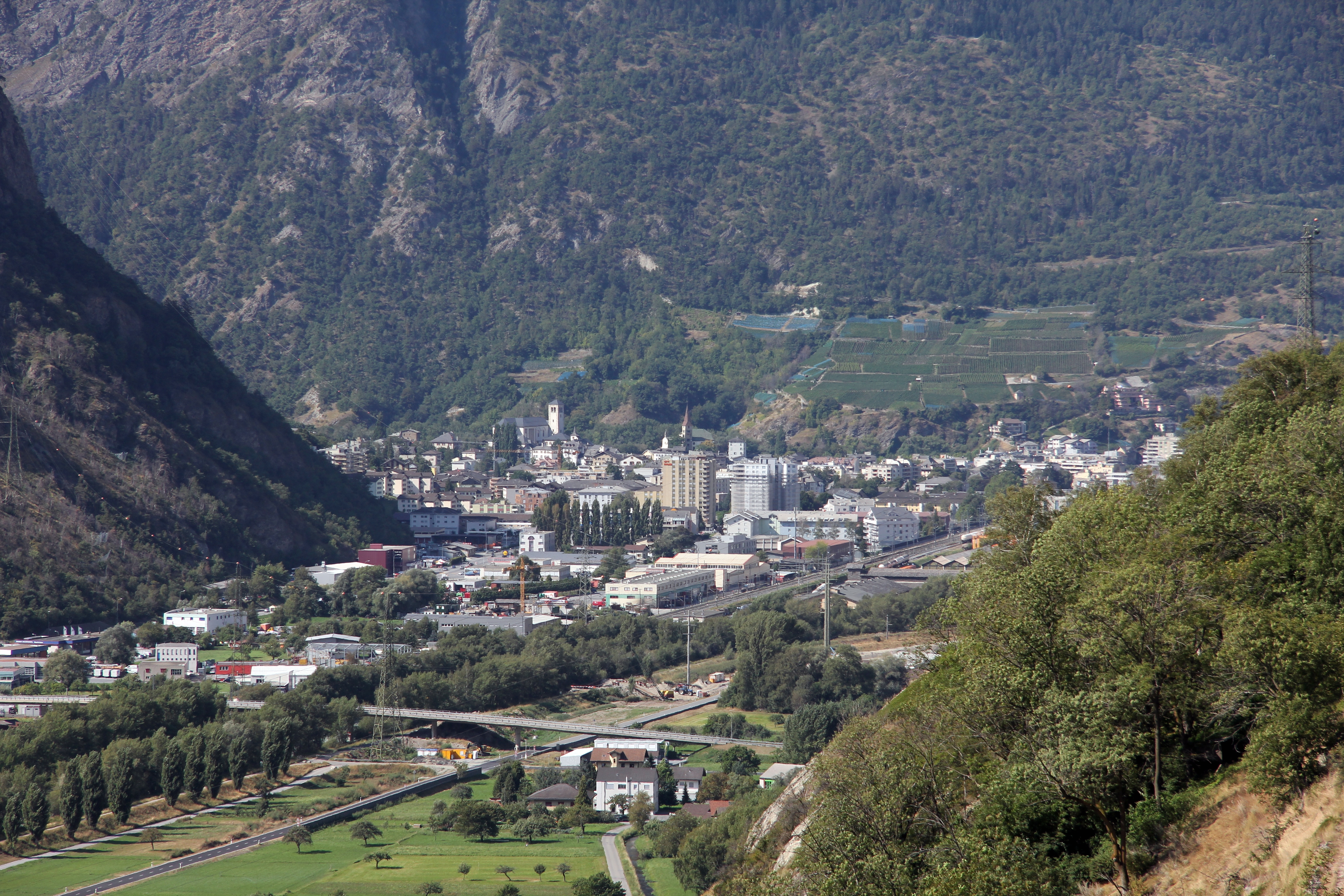 View of the city of Visp from the pedestrian road along the Lötschberg railway line. Object location46° 17′ 44.14″ N, 7° 53′ 06.85″ E